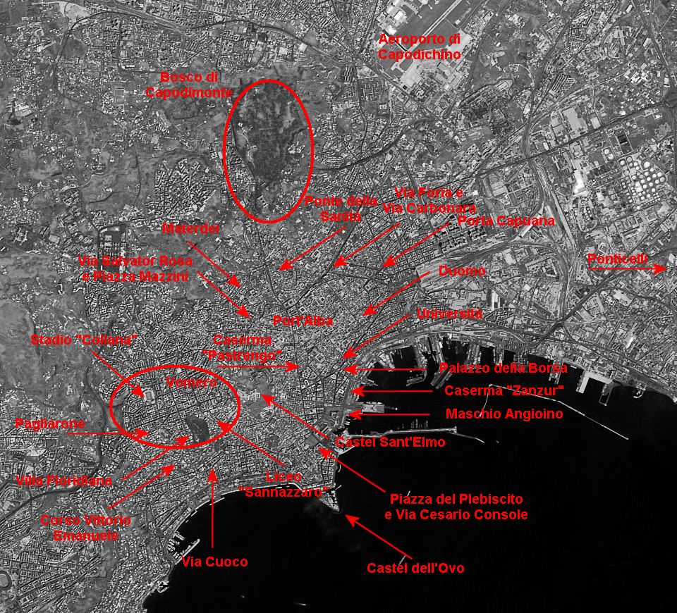 Satellite image of Naples. Original caption: satellite image taken from NASA (all work released by NASA is into public domain). Further elaboration and editing by me.